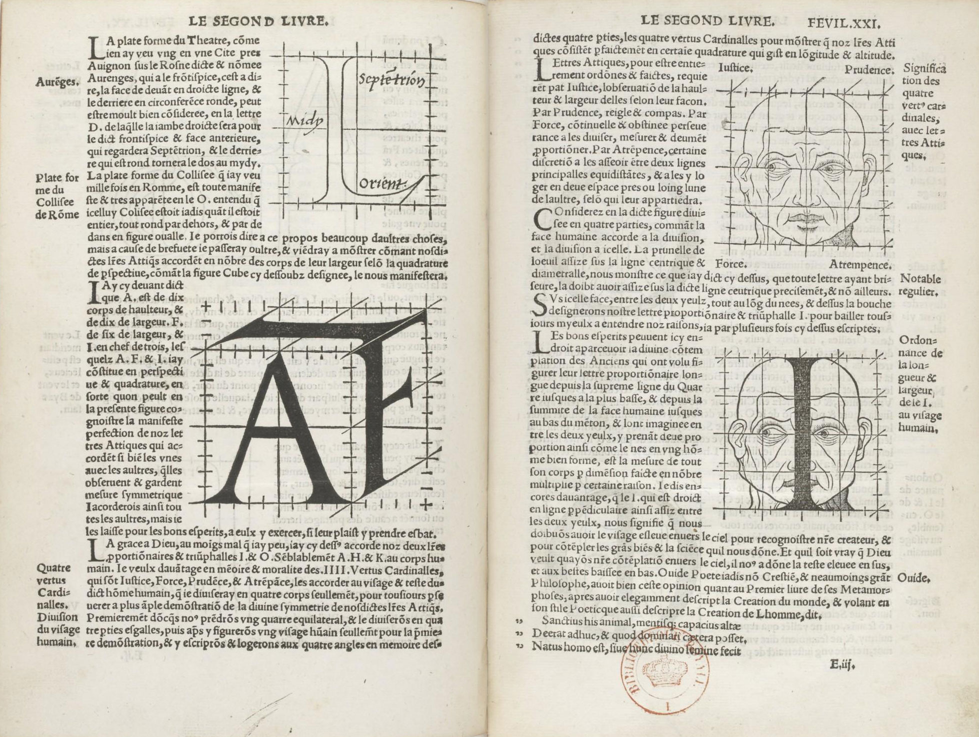 Page-spread from the "Champ Fleury" written and printed by Geoffrey Tory in 1529. Copy of the Bibliothèque nationale de France.